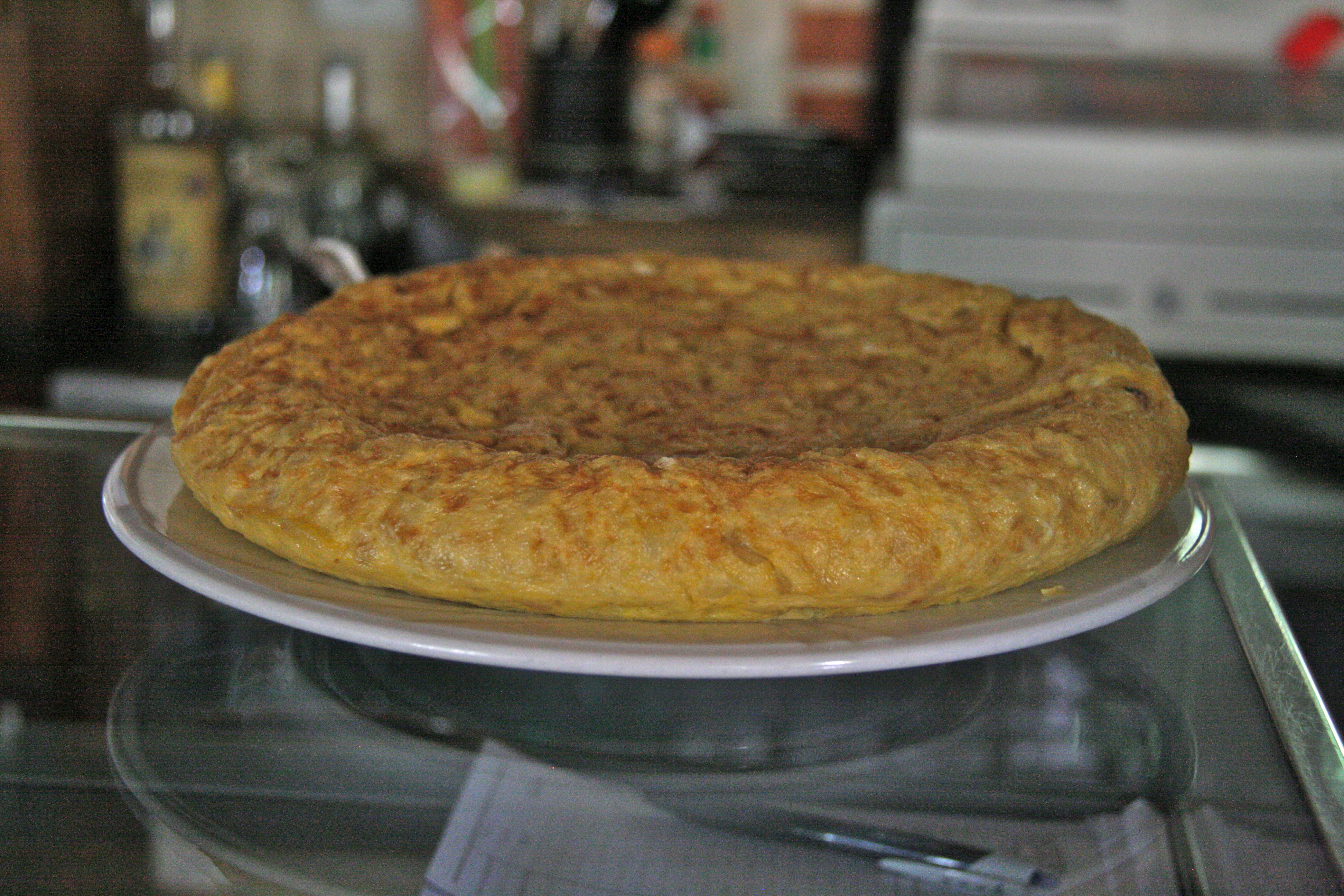 Spanish omelette